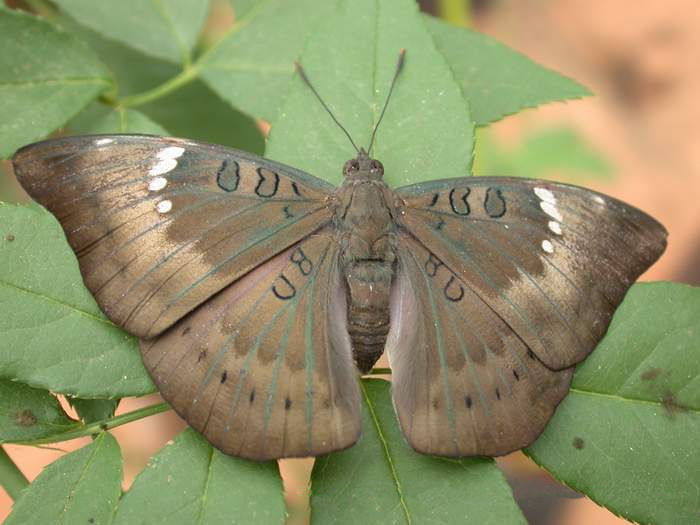 Euthalia aconthea adult